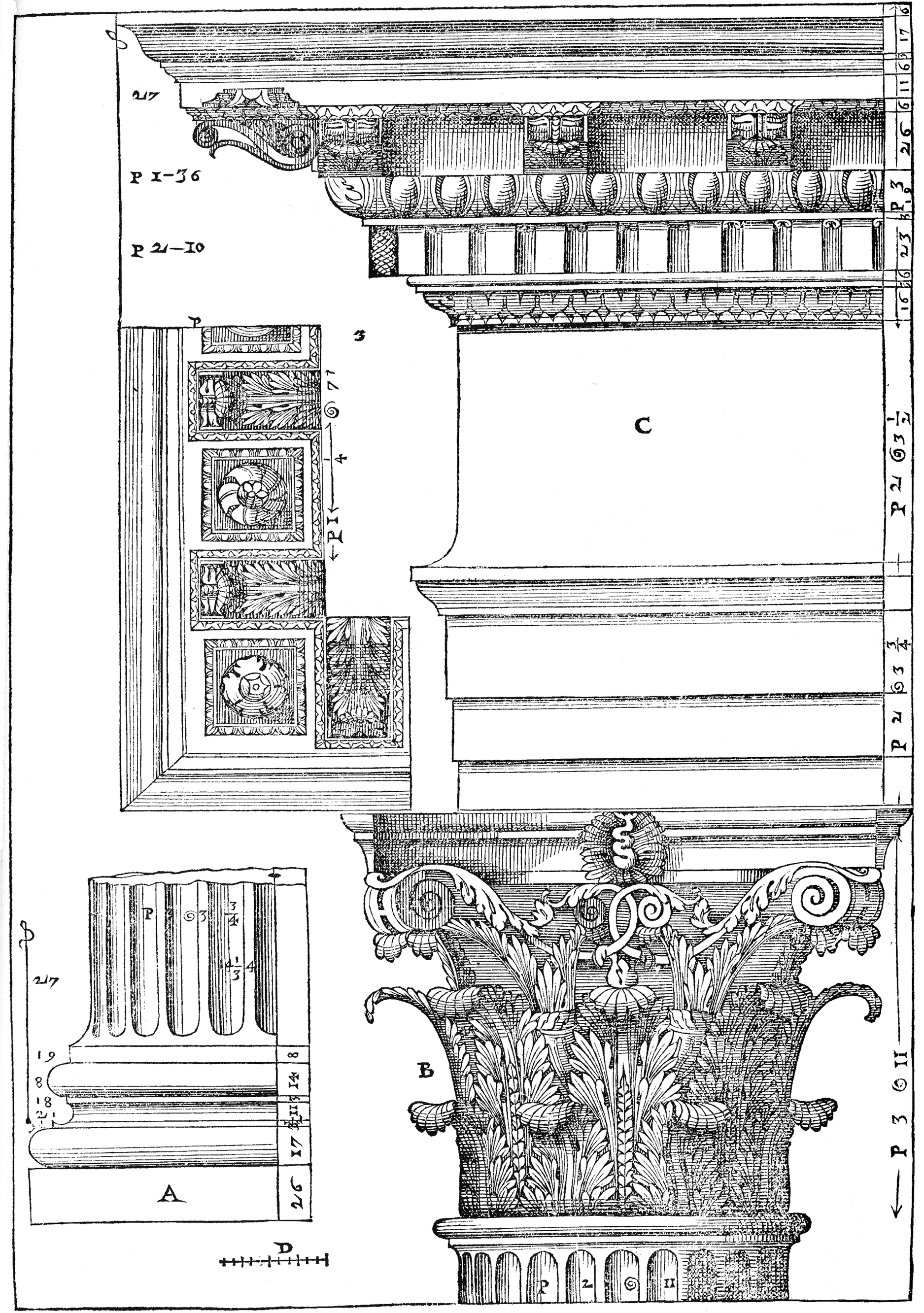 Andrea Palladio, detail from the Temple of the Dioscuri of Naples, from "Quattro libri dell'architettura" (Four Books on Architecture), Venice 1570